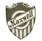 logo